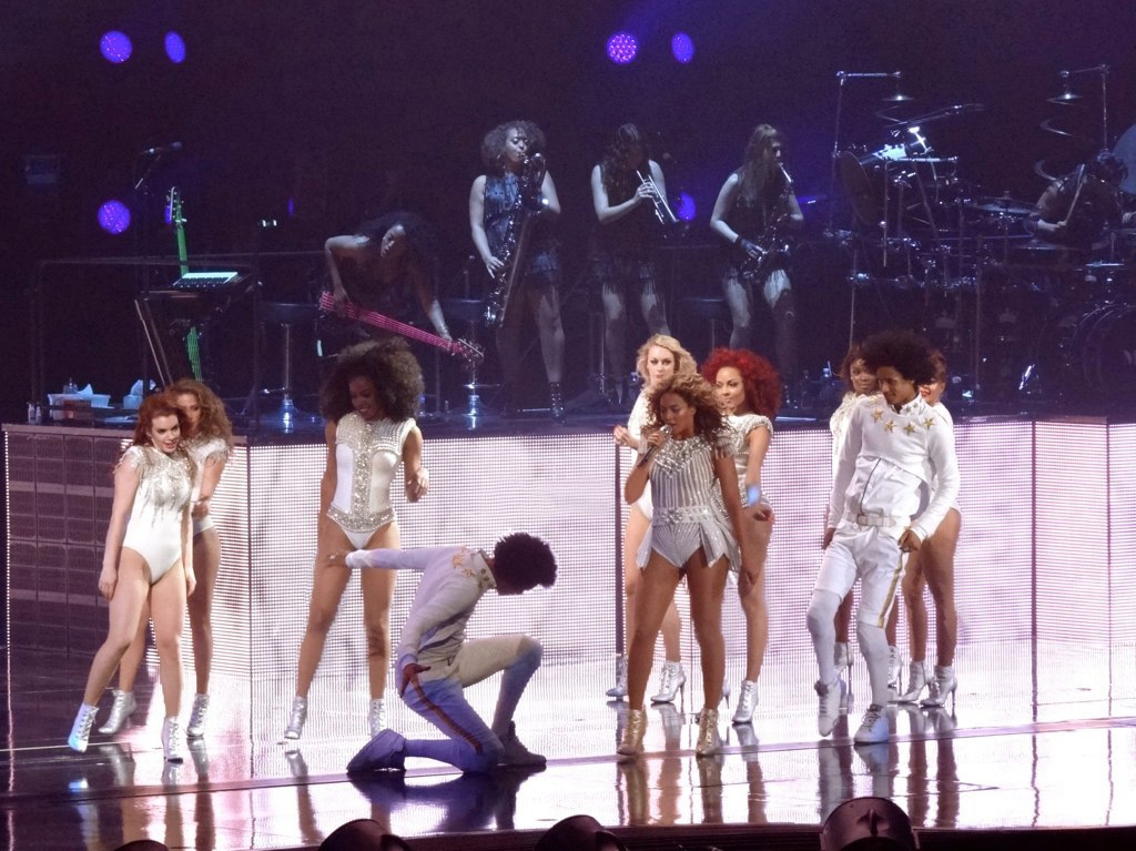 Beyonce performing in Montreal in 2013 during The Mrs. Carter Show World Tour.